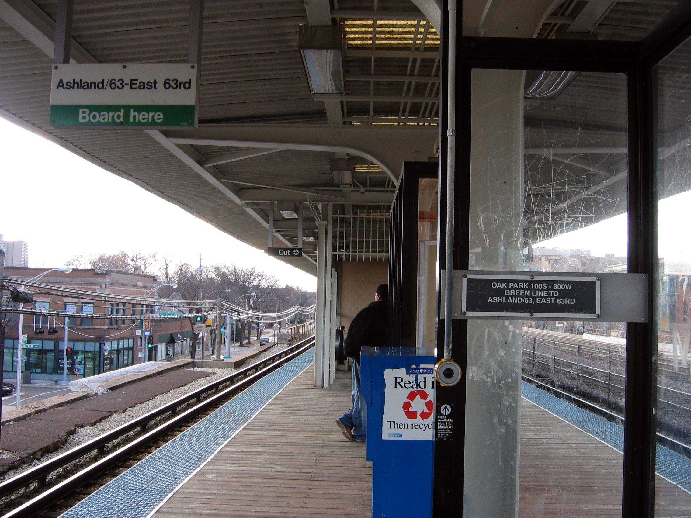 Photo by User:AudeVivere